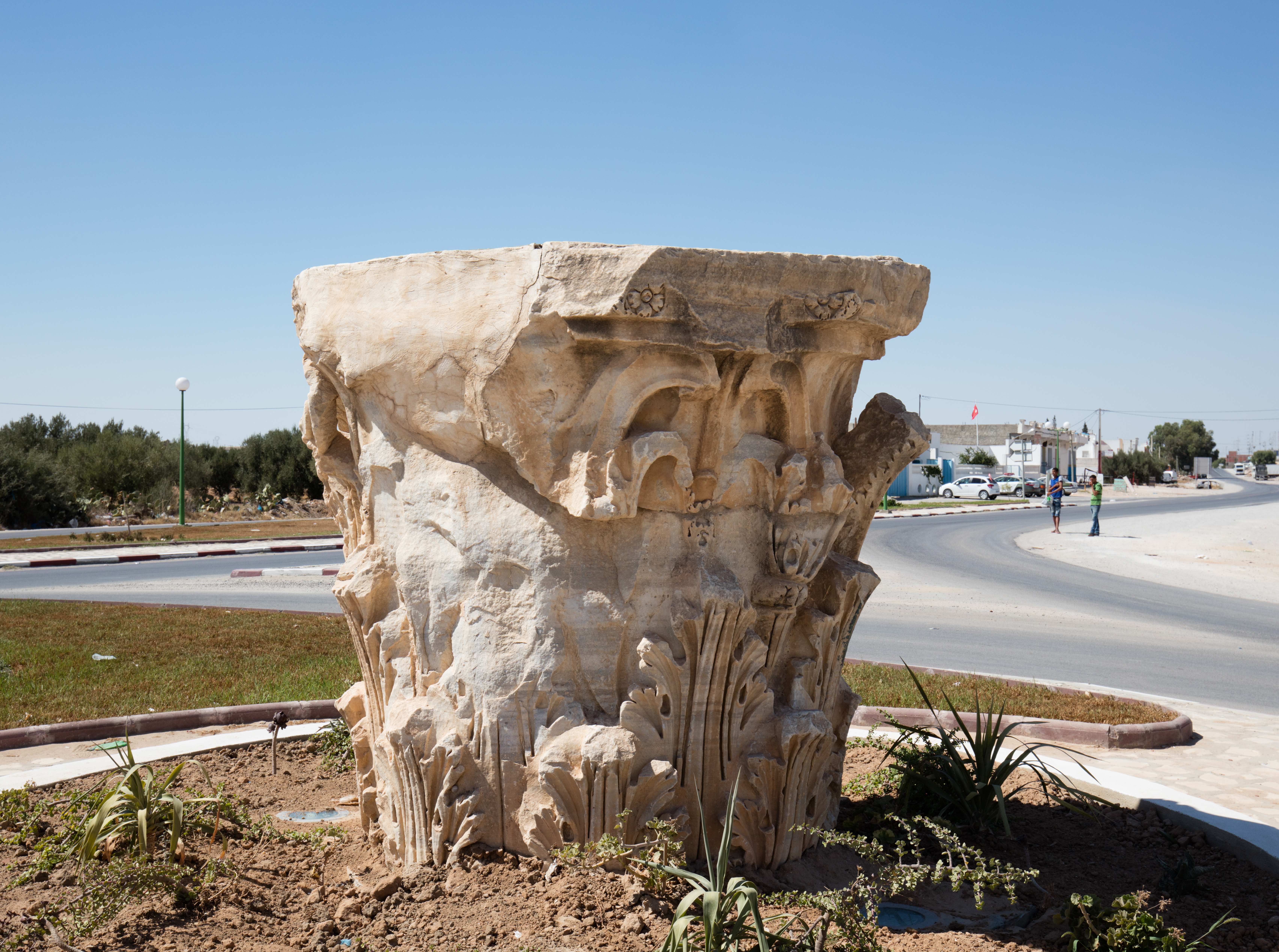 Great Corinthian Capital, El Jem, Tunisia